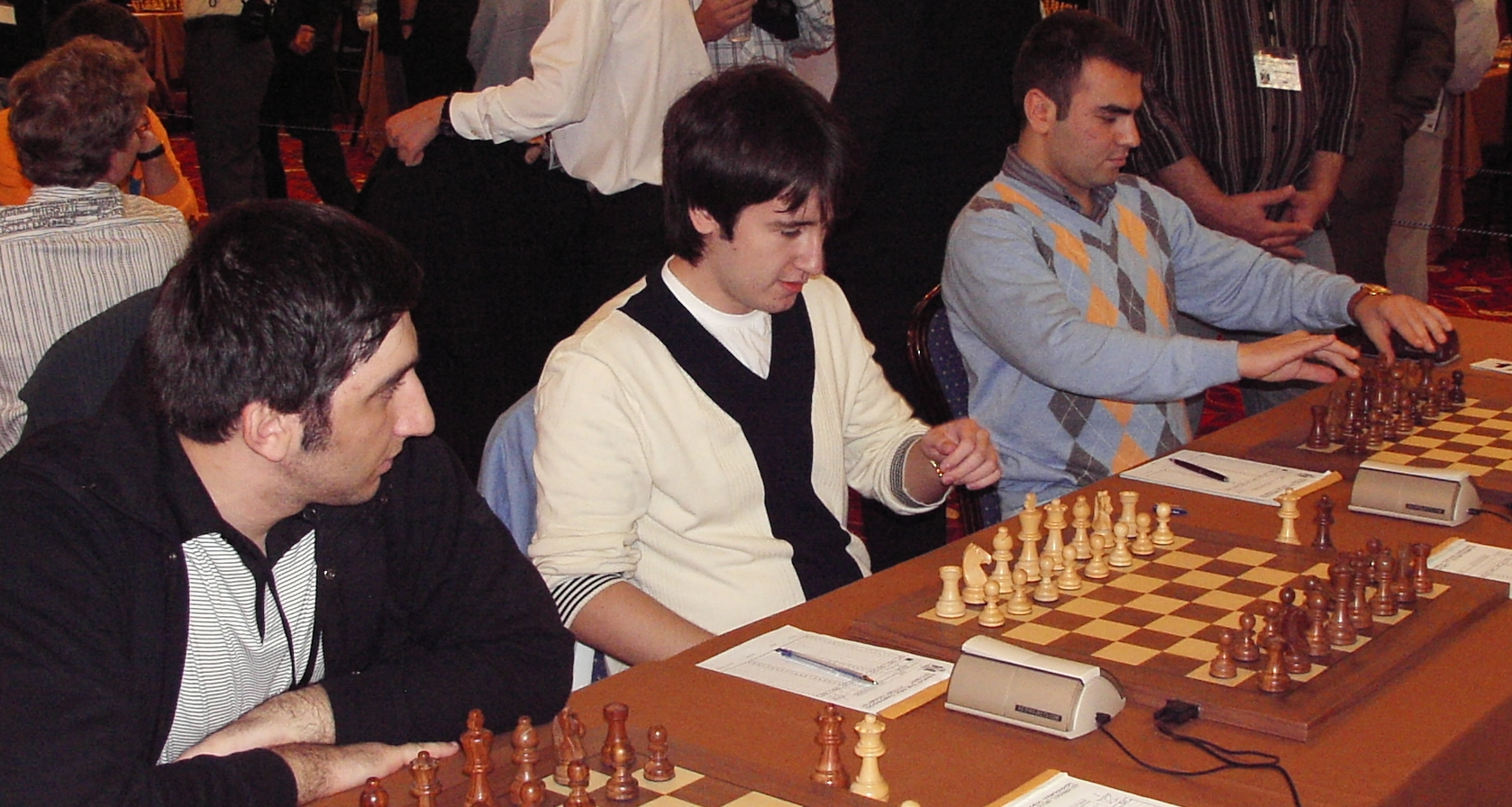 Azerbaijani Grandmasters Vugar Gashimov, Teimour Radjabov and Shakhriyar Mamedyarov at EuroChess 2007.